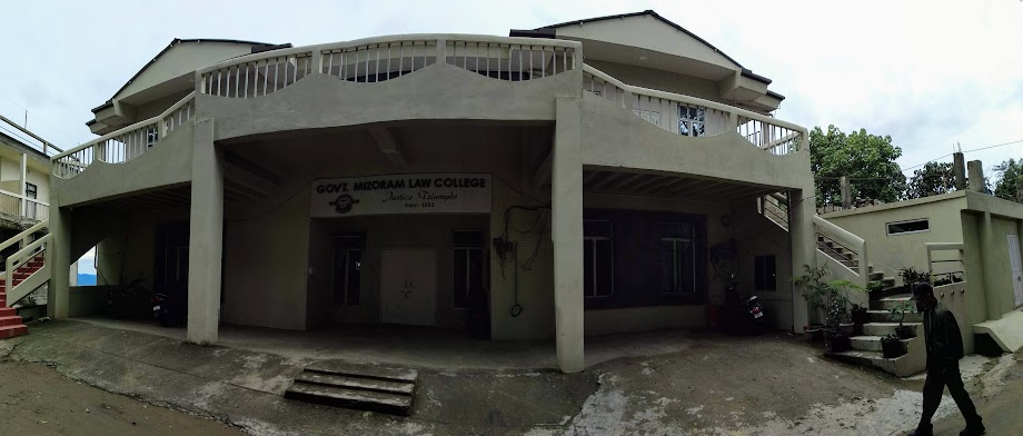 Mizoram Law College